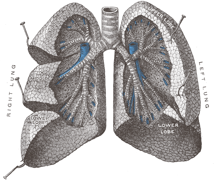 Bronchi and bronchioles. The lungs have been widely separated and tissue cut away to expose the air-tubes. (Testut.)